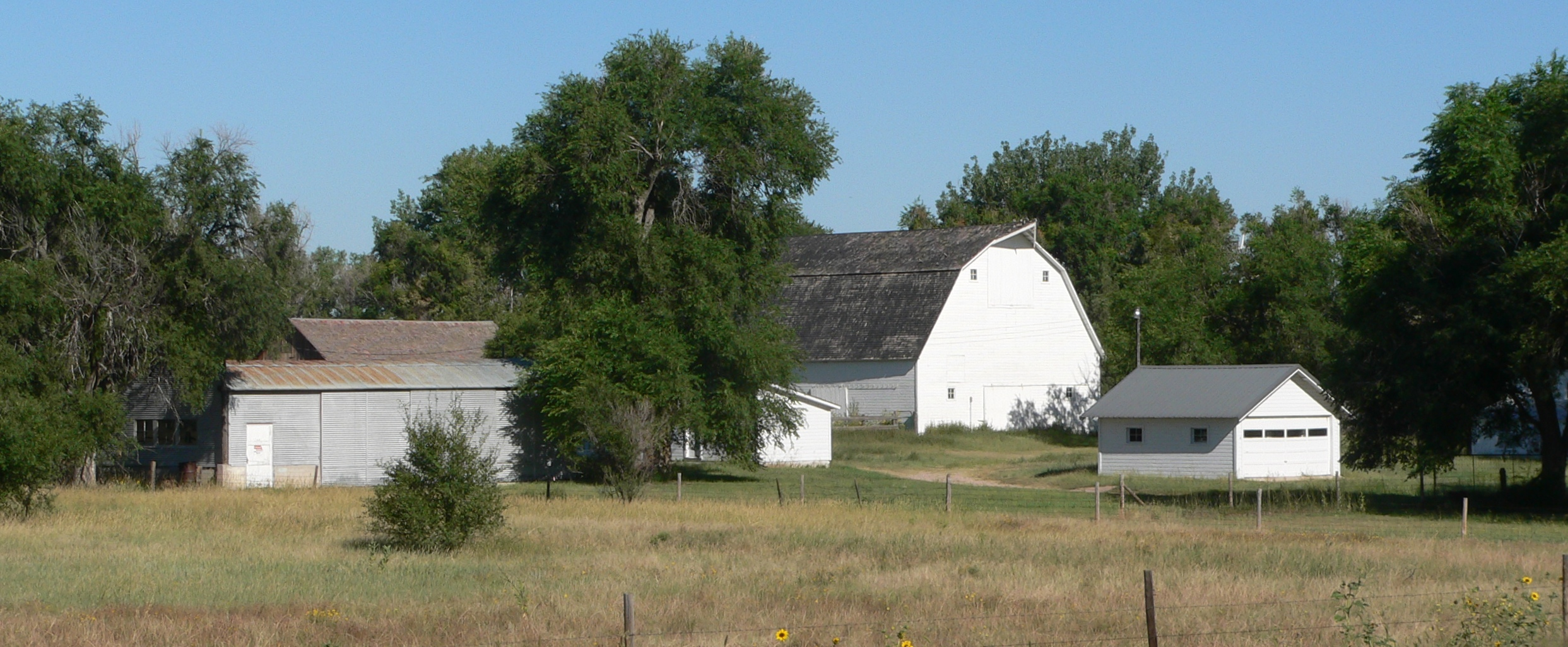 Brookside Farm, also known as Gridley-Howe-Faden-Atkins Farmstead, located on west side of Nebraska Highway 71 just south of Lodgepole Creek; seen from the southeast. The farm is listed in the National Register of Historic Places.